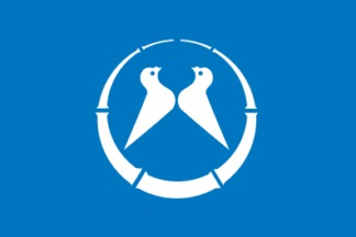 Flag of Yawata Kyoto